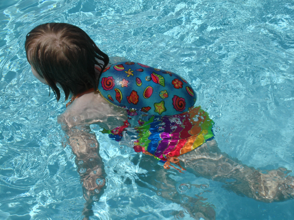 Swimming child with back bubble (floating device)